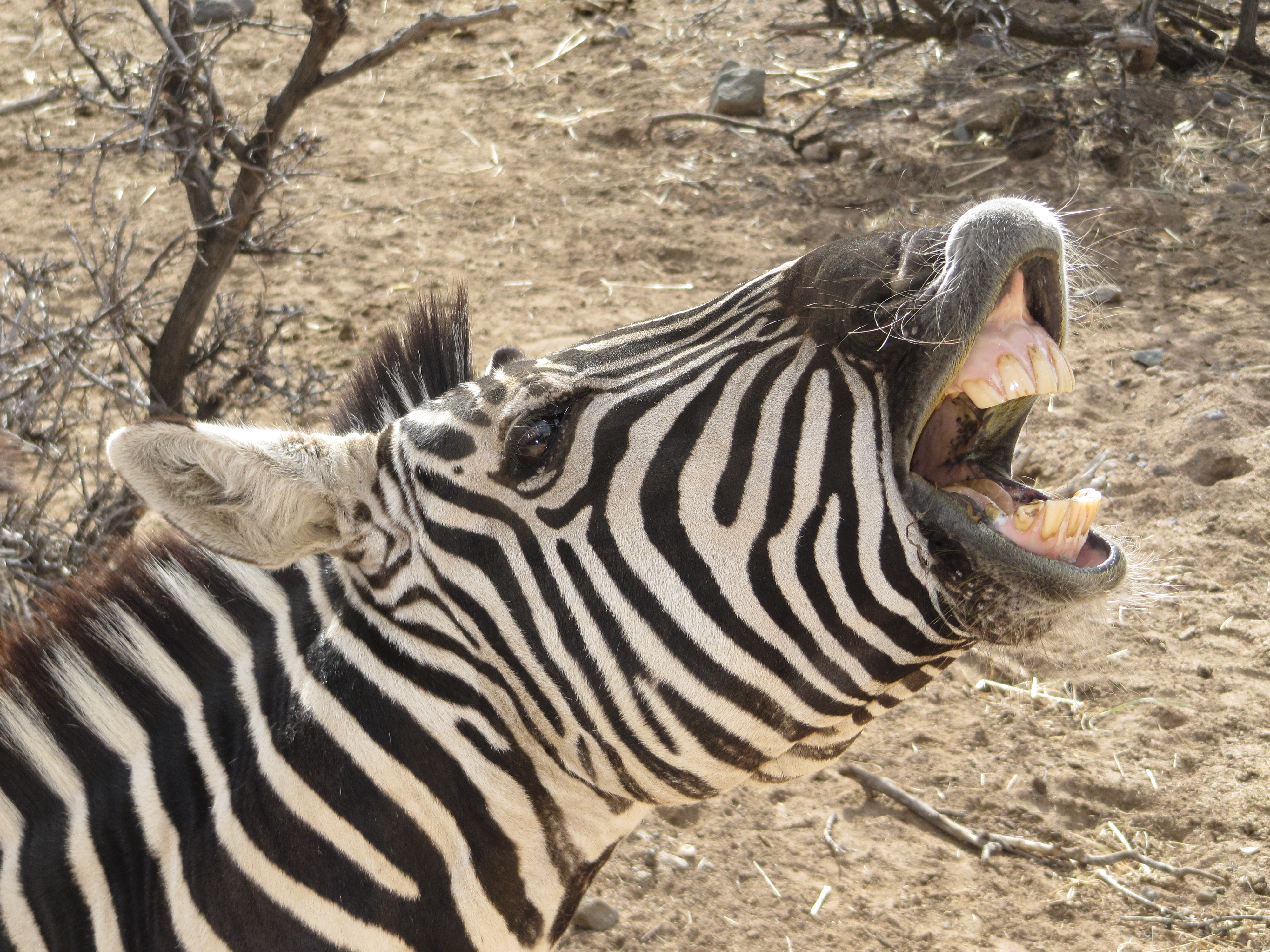 Zebra from Out of Africa Park in Camp Verde, AZ (near Sedona).